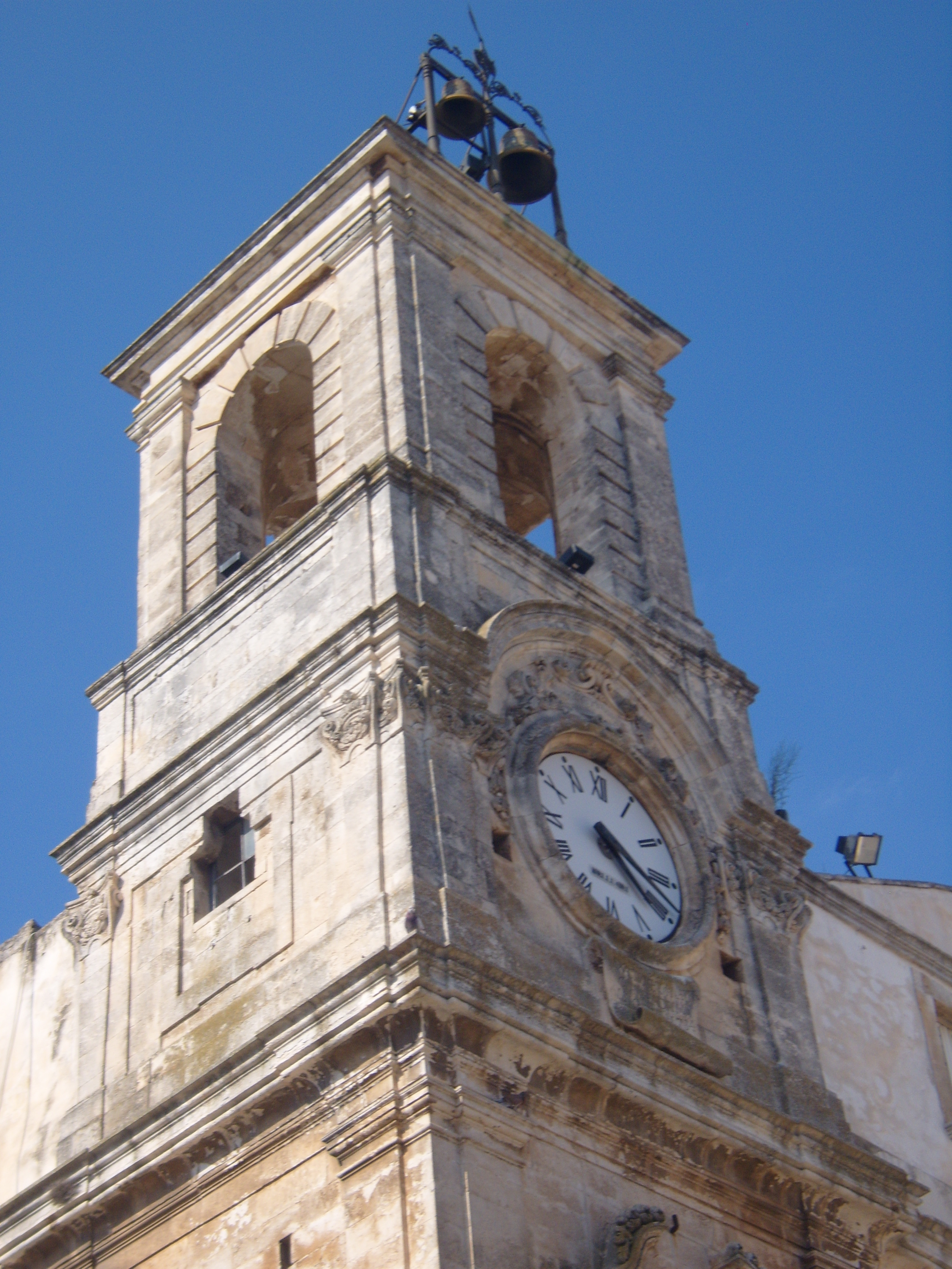 Martina Franca's belltower, Province of Taranto, Italy